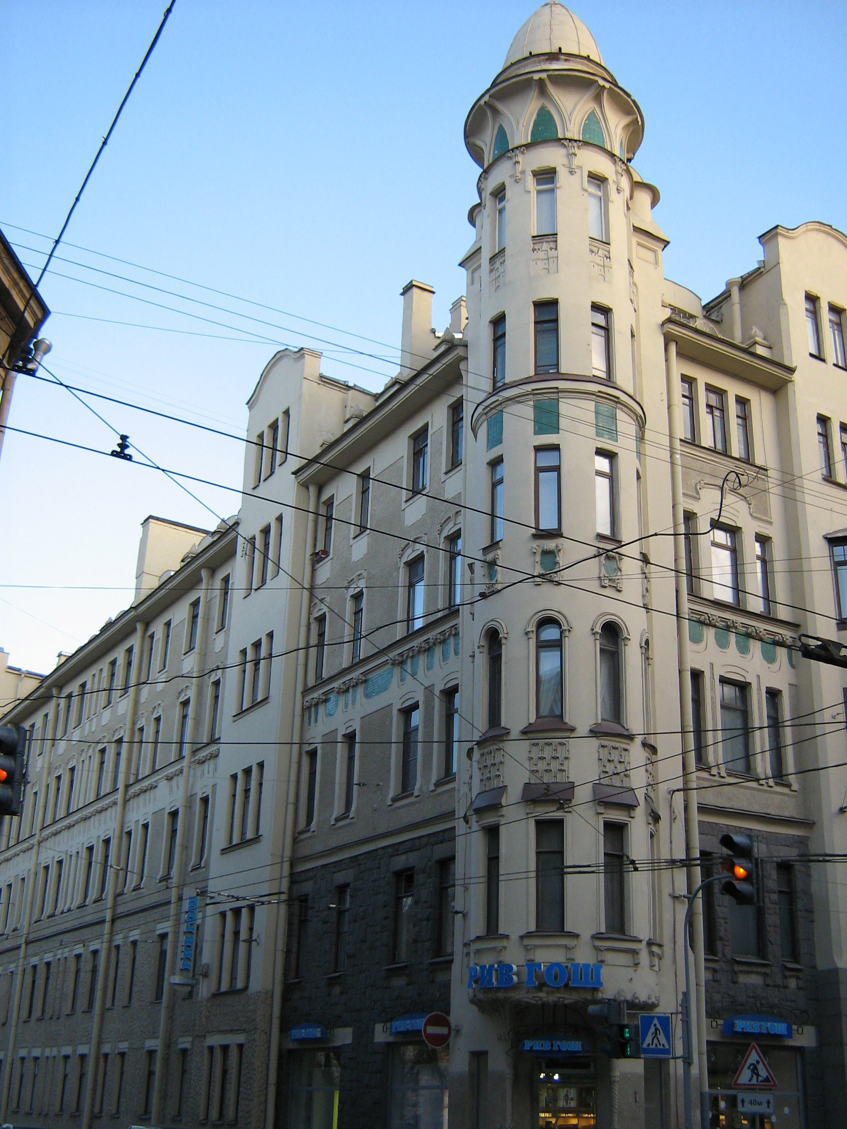 Bolshoy avenue (Petrograd side), 69, corner of Ordinarnaya street (Saint-Petersburg, Russia)